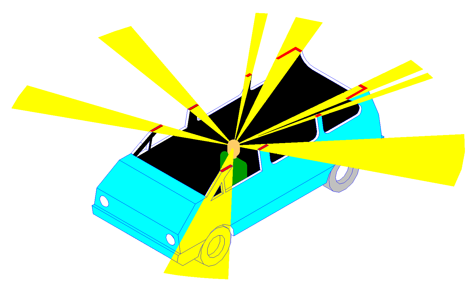 Who created this image? Stef Breukel inventor of the world arm lamp Who owns the copyright to this image? Stef Breukel did. Where did this image come from? Stef Breukel donated it to wikipedia.